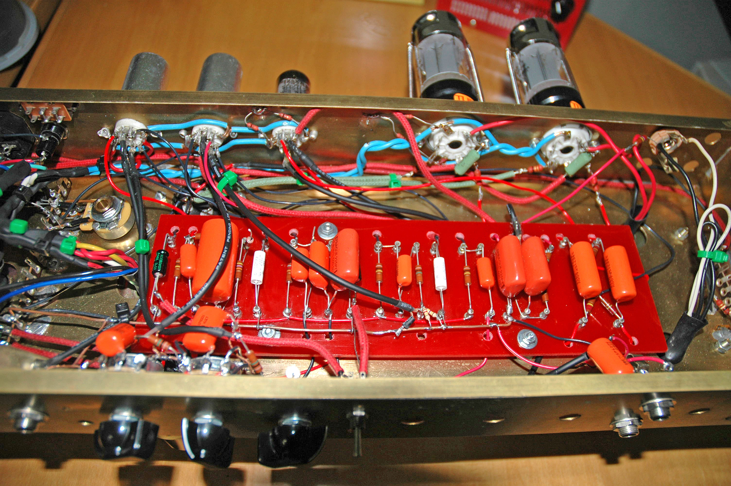 Point to point (PTP) wiring scheme on parts of a homemade tube amplifier circuit. Most of the capacitors are the cheerful orange drop (Sprague 715P type) polypropylenes. There's one black axial electrolytic on the left of the strip, and two unreadable white cylinders look like a different type of film cap.